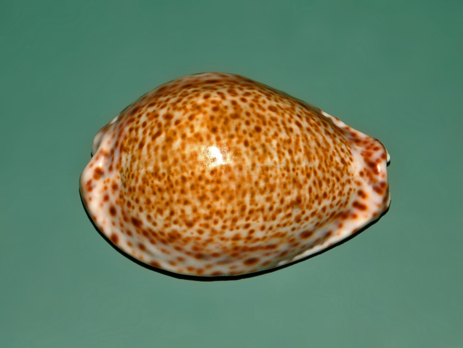 Naria turdus